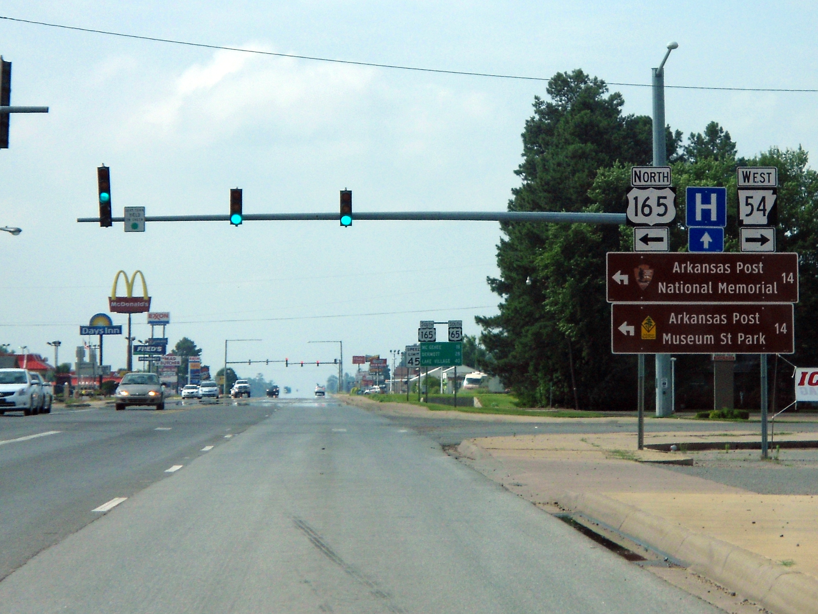 US 165 begins an overlap south with US 65 at this junction with Highway 54 in Dumas.